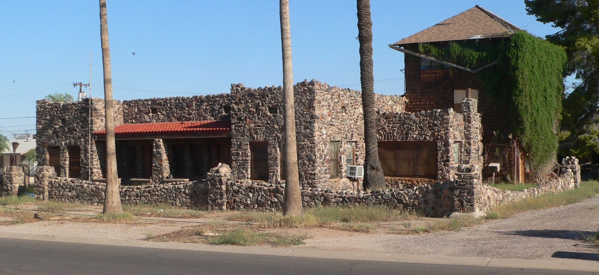 Fisher Memorial Home, located at 300 E. 8th Street (northeast corner of 8th Street and Olive Avenue) in Casa Grande, Arizona. View is from the southeast.